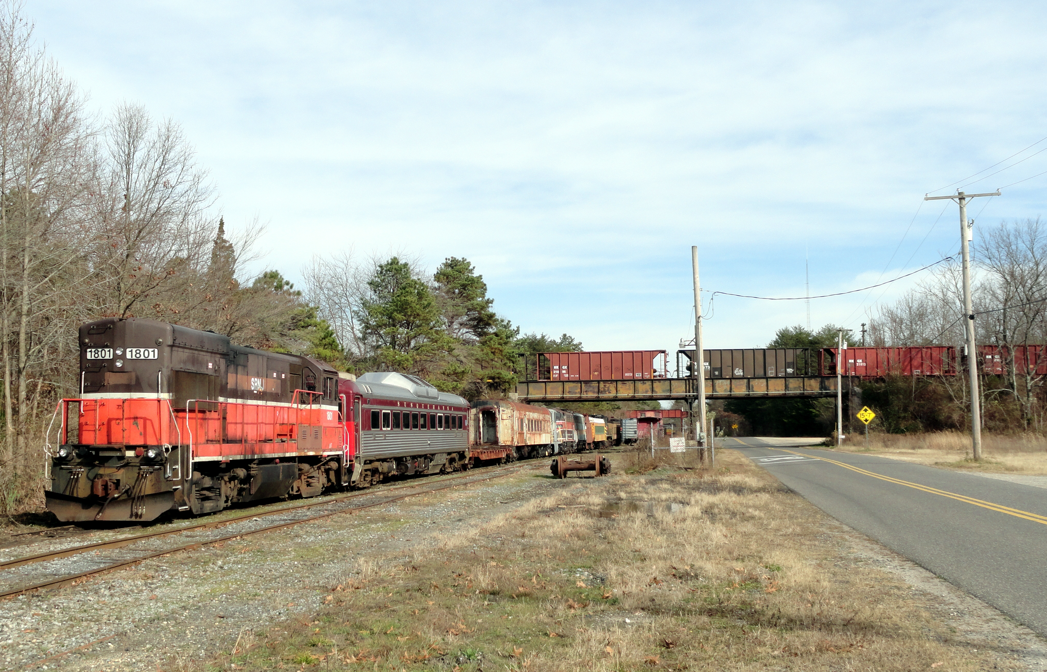 View of Winslow Junction on the Southern Railroad of New Jersey in Winslow Township, New Jersey. Looking northeast towards the end-of-track. The Vineland Railway built the rail line in the 1860s southward to Vineland, the current terminus of the SRNJ. (Vineland Railway was later leased by the New Jersey Southern Railroad, which itself was succeeded by the Central Railroad of New Jersey and Conrail). SRNJ locomotive no. 1801, a model U18B built by General Electric, is on a siding, with rolling stock acquired by SRNJ from various railroads. In the middle ground is a trestle with coal hoppers on the Beesley Point Secondary line of Conrail Shared Assets Operations. (A connecting track to SRNJ is located to the right, outside of this photo.) In the distance is a trestle for the Atlantic City Line of New Jersey Transit.